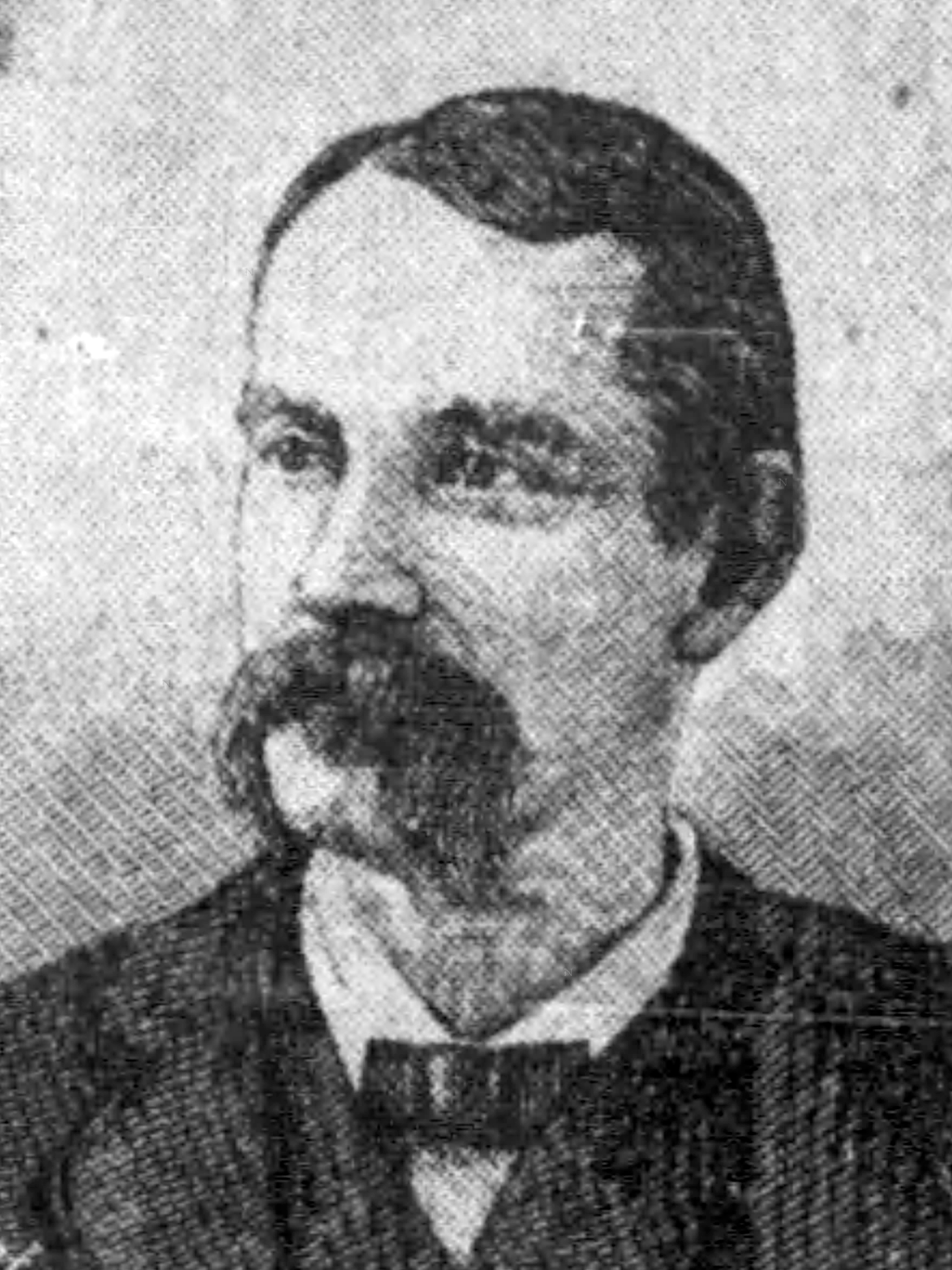 Photo printed in Los Angeles Times of January 29, 1903, page 12. H.V. Van Dusen was a Los Angeles, California, City Council member and the city postmaster in the 1890s.